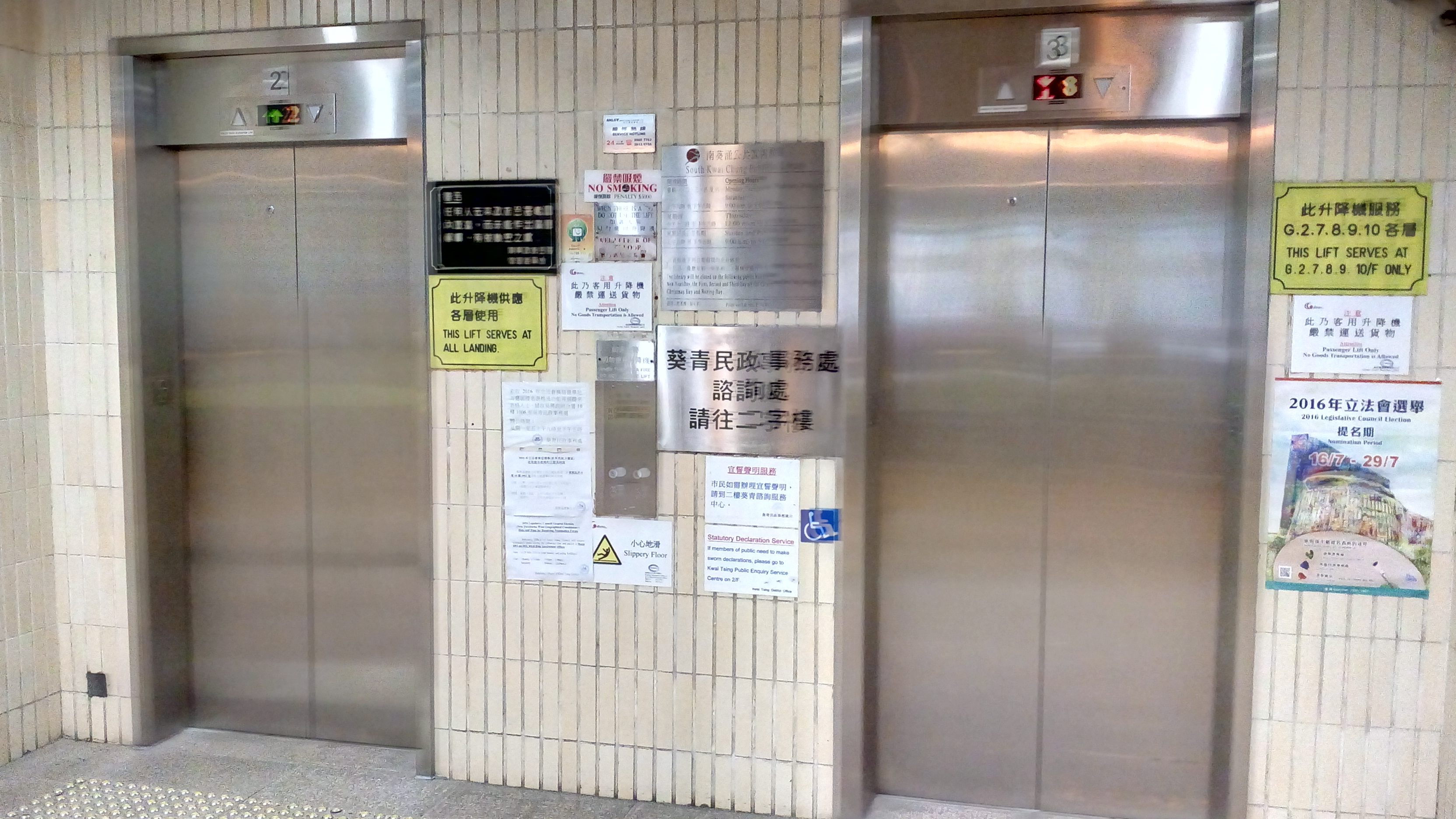 Kwai Hing Government Offices Lobby. (174 Hing Fong Road)